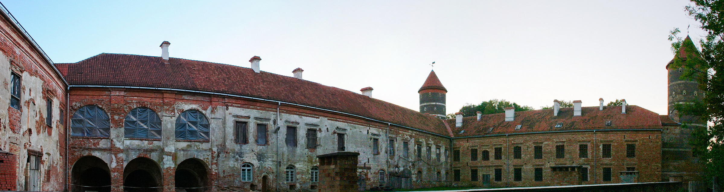 Current state of Panemunė Castle, Lithuania